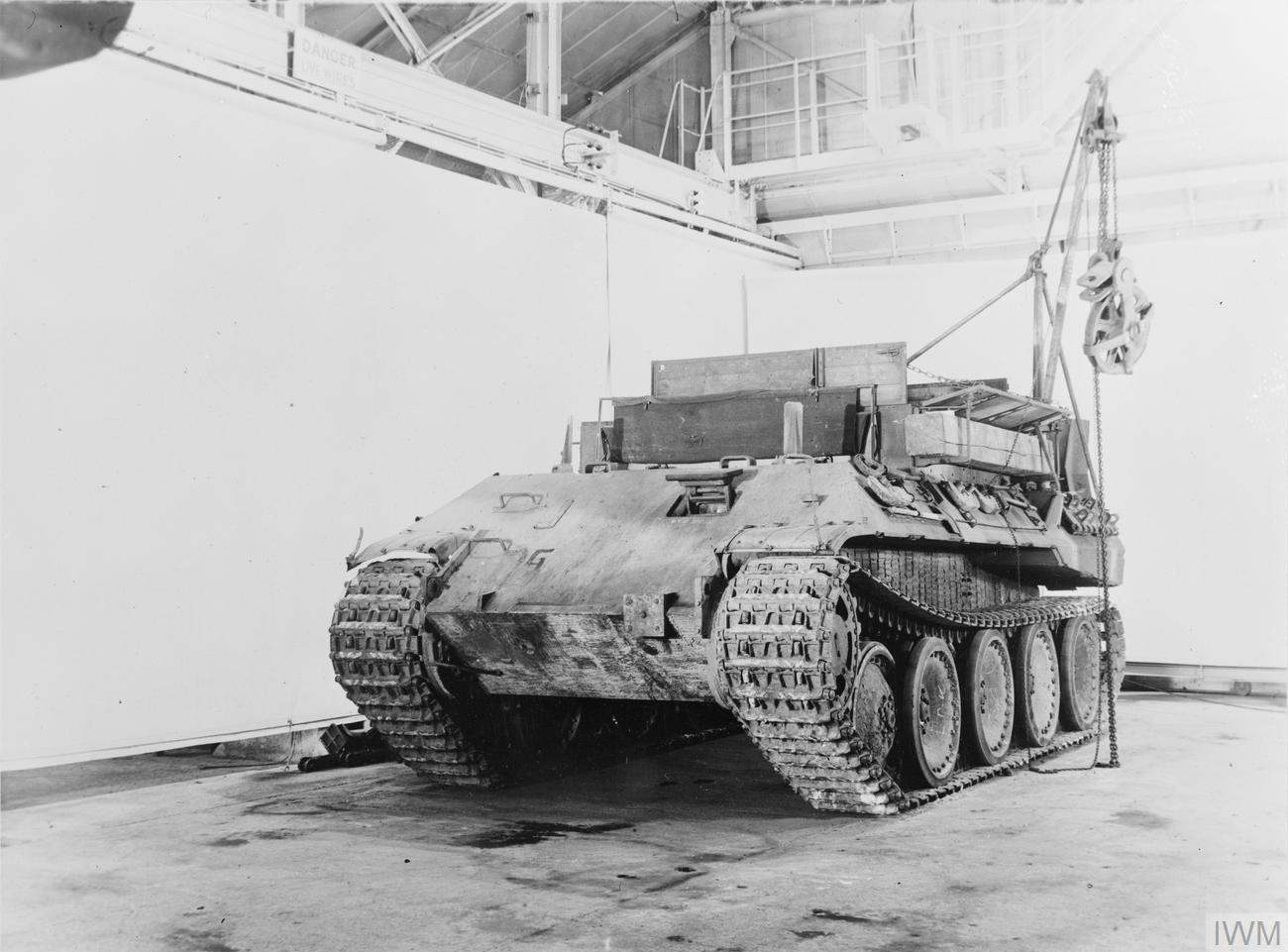 Captured German Bergepanther armoured recovery vehicle under trials in Britain